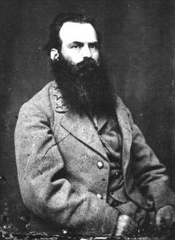 James Lawson Kemper (June 11, 1823 – April 7, 1895) was a lawyer, a Confederate general in the American Civil War, and a governor of Virginia. He was the youngest of the brigade commanders, and the only non-professional military officer in the division that led Pickett's Charge, in which he was wounded and captured but rescued.